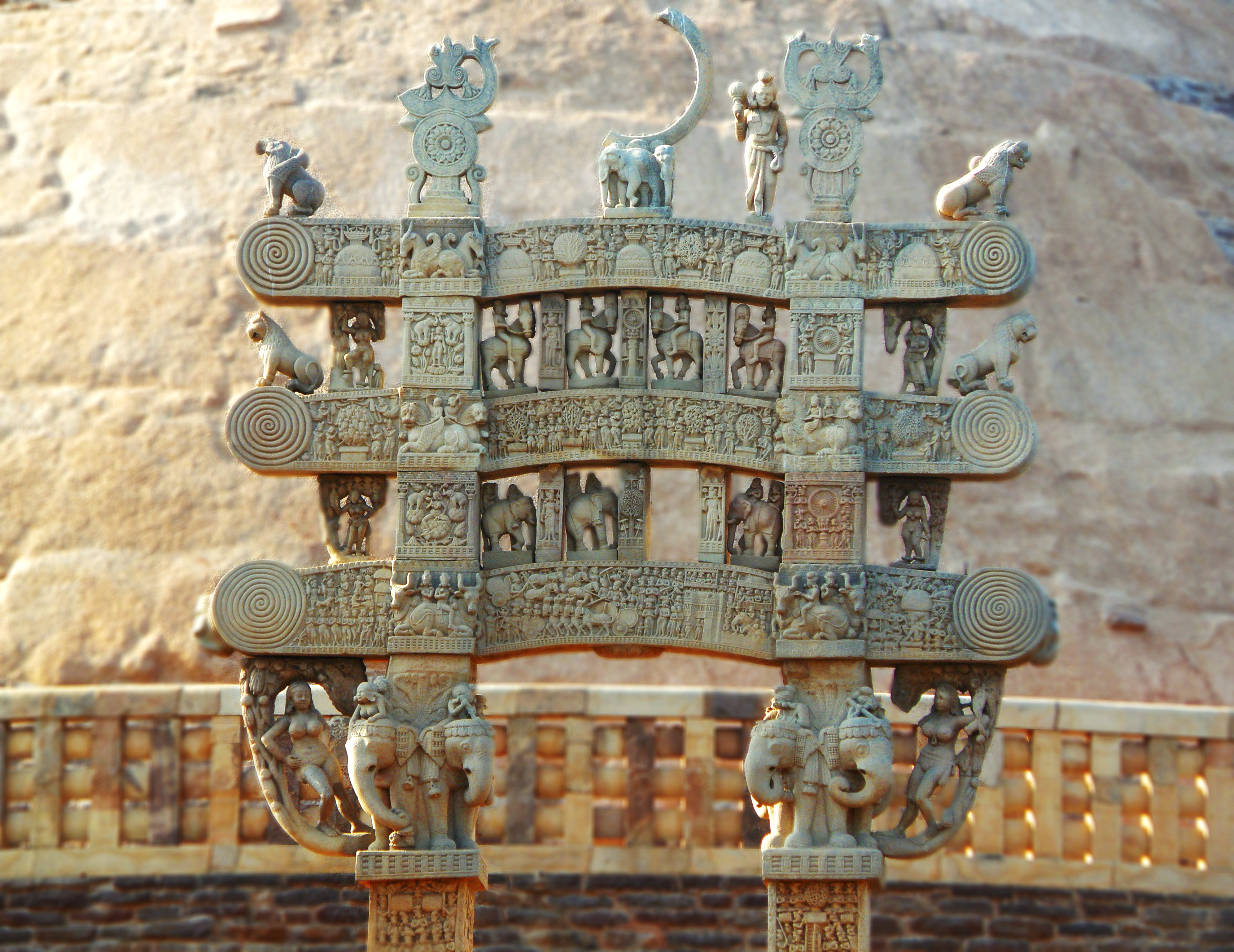 Uttari Toran, Northern Gate, Sanchi Stupa built by King Ashoka in 3rd century BC, which contained the relics of Buddha, and now a UNESCO World Heritage Site.